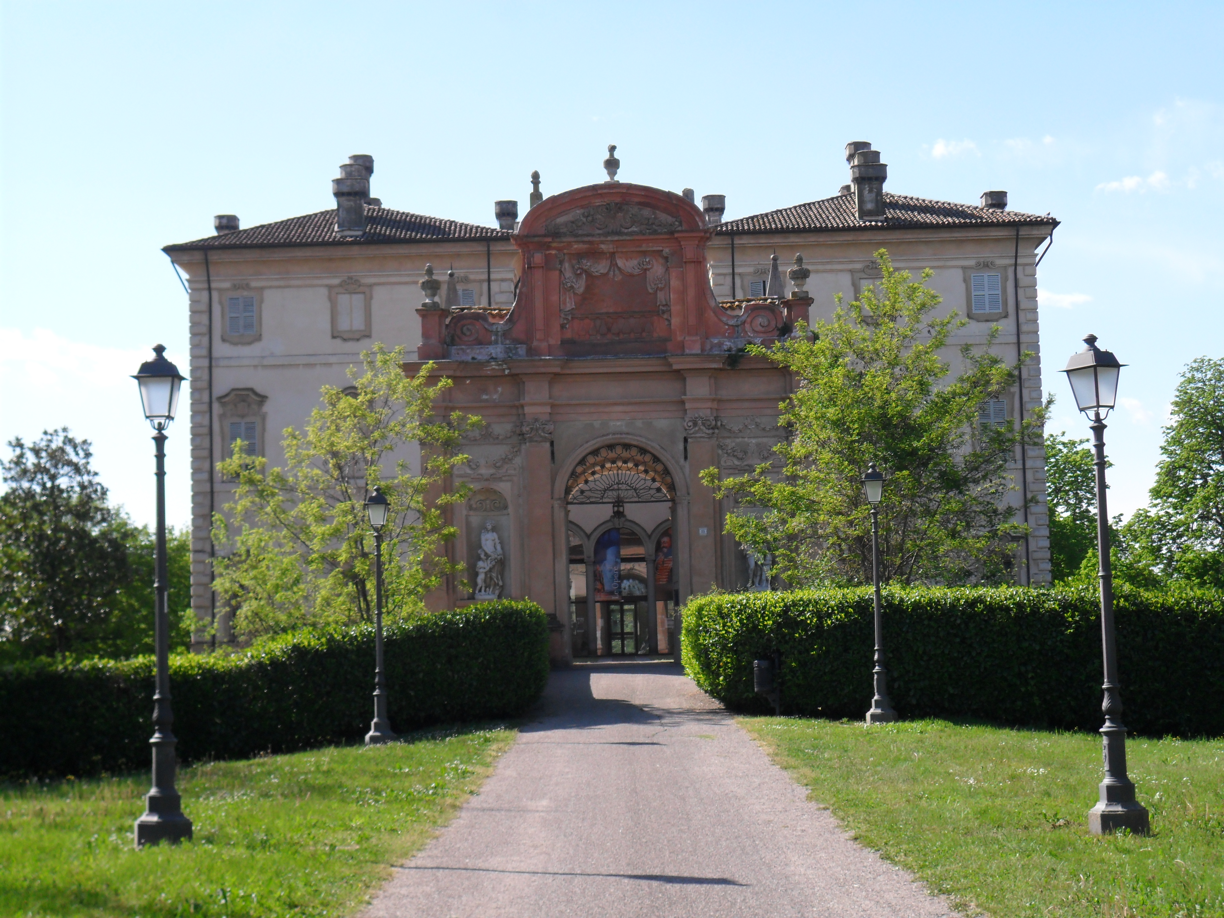 villa pallavicino busseto. (PR)